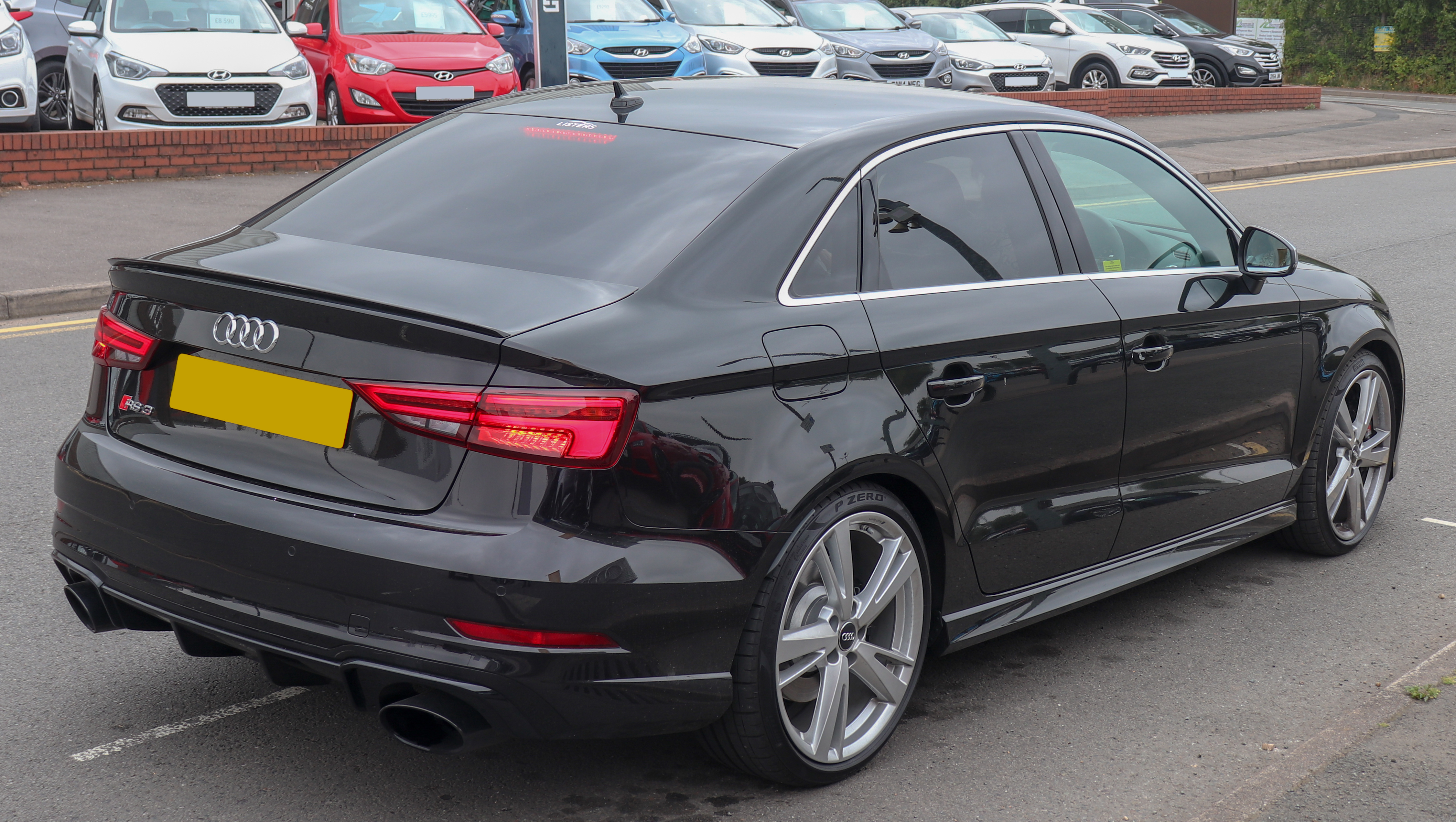 2018 Audi RS3 Quattro S-A Saloon 2.5 Taken in Stratford-upon-Avon